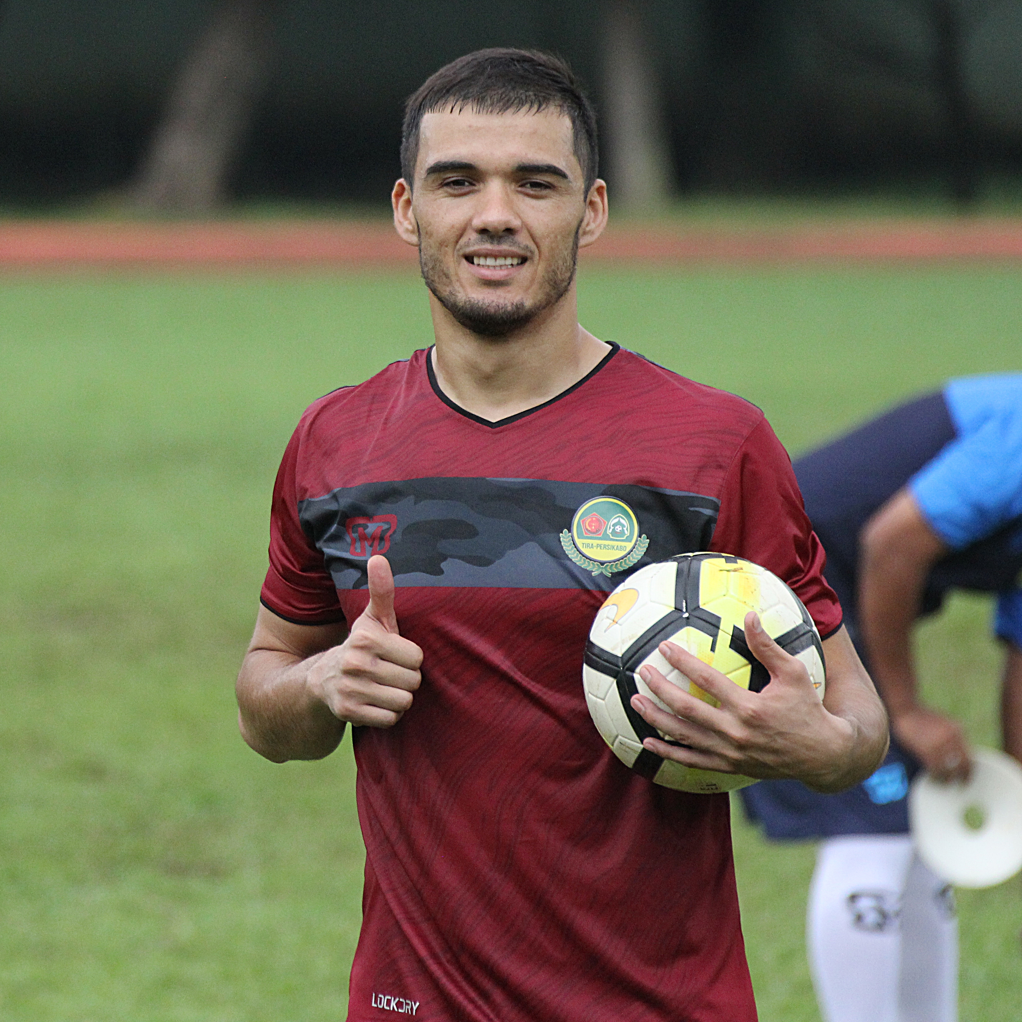 Khurshed Beknazarov Хуршед Бекназаров Хуршед Бекназаров TIRA-Persikabo ТИРА-Перикабо ТИРА-Персикабо